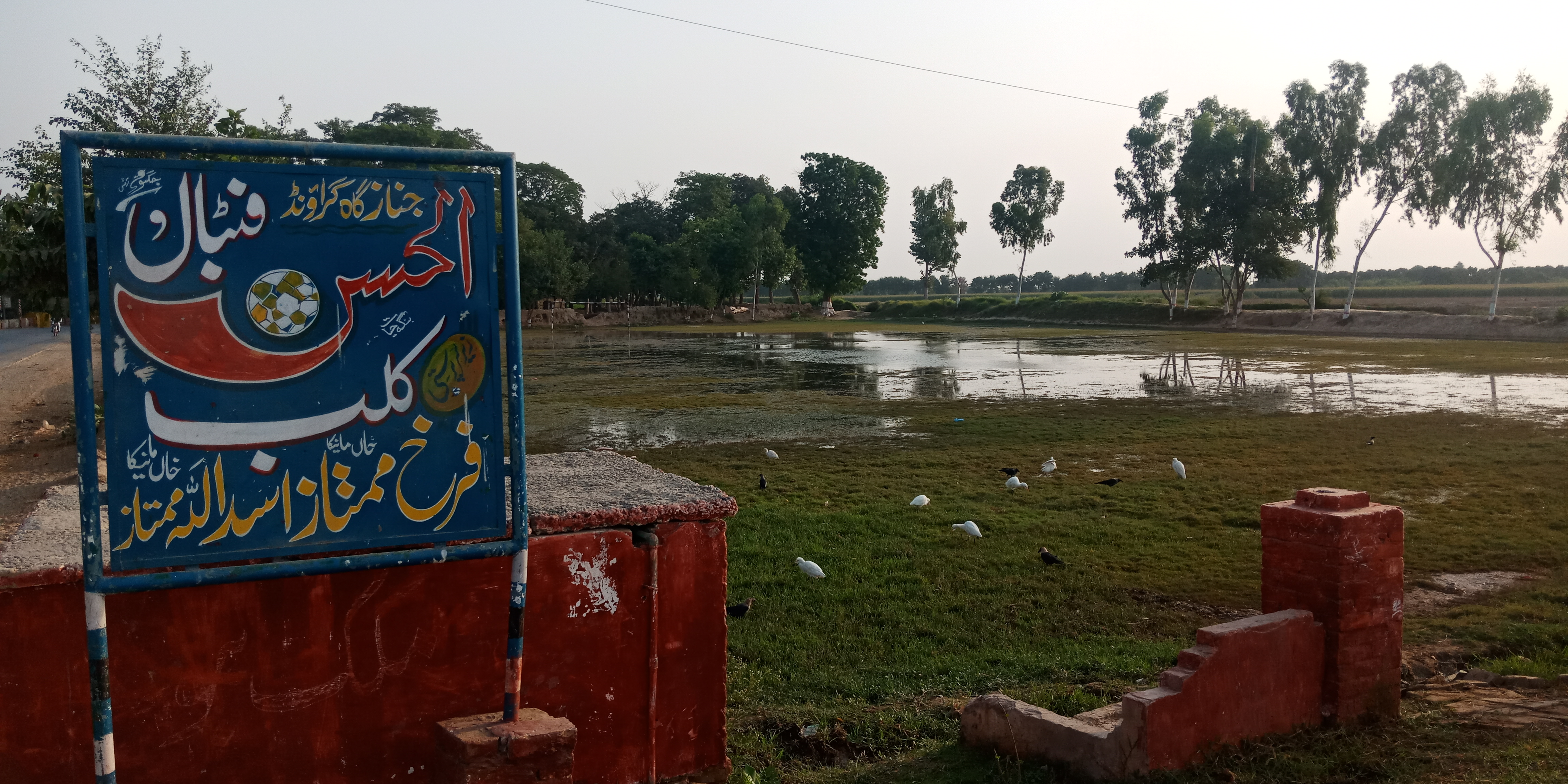 Football Ground Bunga Hayat